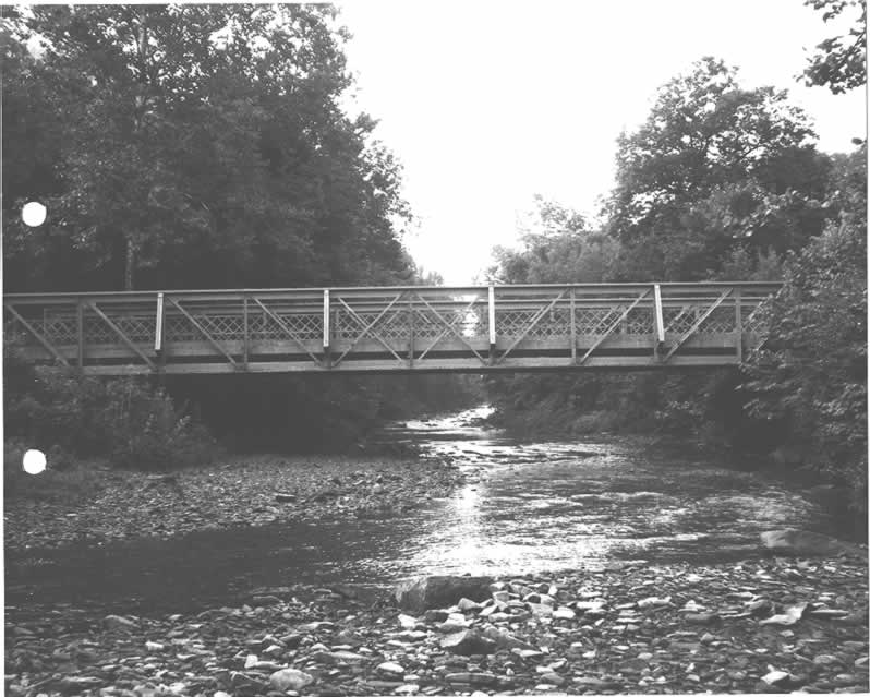 Witherup Bridge, which carries Legislative Route 60007 over Scrubgrass Creek in Clinton Township, Venango County, Pennsylvania, United States. Built in 1906, the bridge is listed on the National Register of Historic Places.